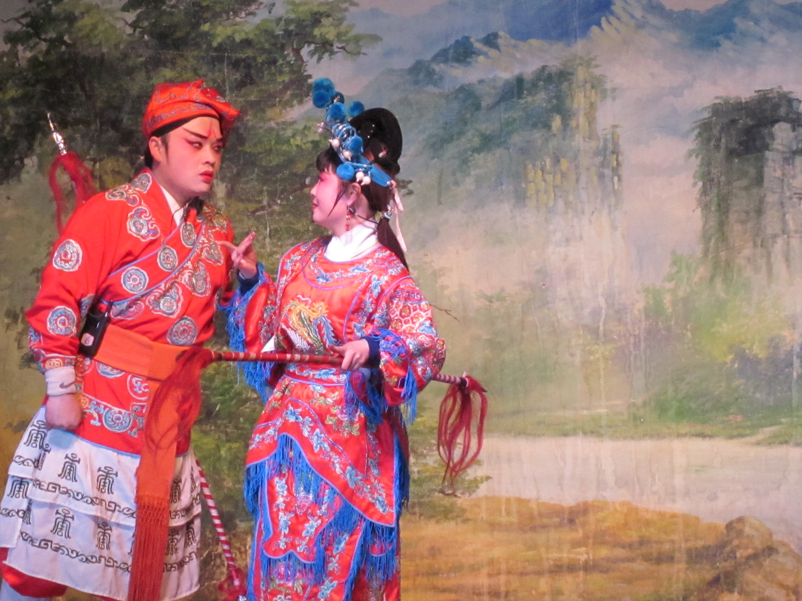 Changsha Flower Drum Opera, Changsha mandarin dialect is used on stage, giving a greater impact to Hunan style of Flower Drum play.